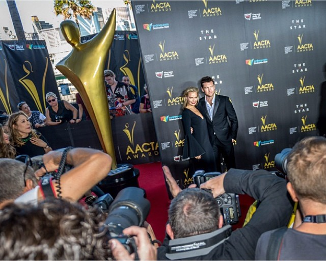 Lara Bingle and Sam Worthington on 2014 AACTAS Awards red carpet